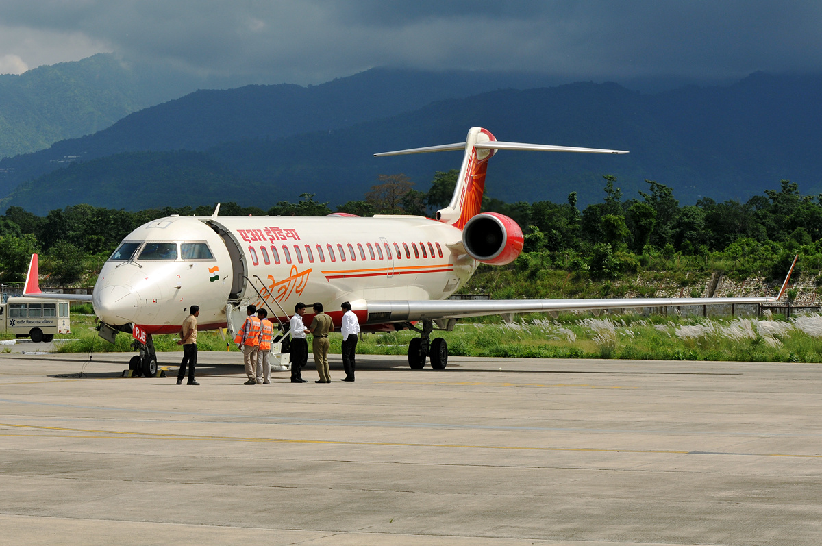 Air India Regional Bombardier CRJ700 at Dehradun Jolly Grant Airport